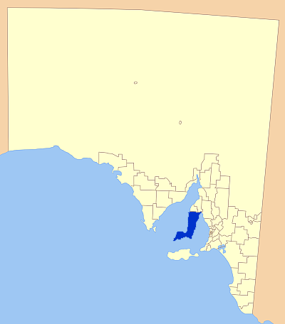 Map of South Australia showing the location of the Yorke Peninsula Local Government Area. A modification of GDFL map by Astrokey44; found here: File:SA_LGA_blank.png